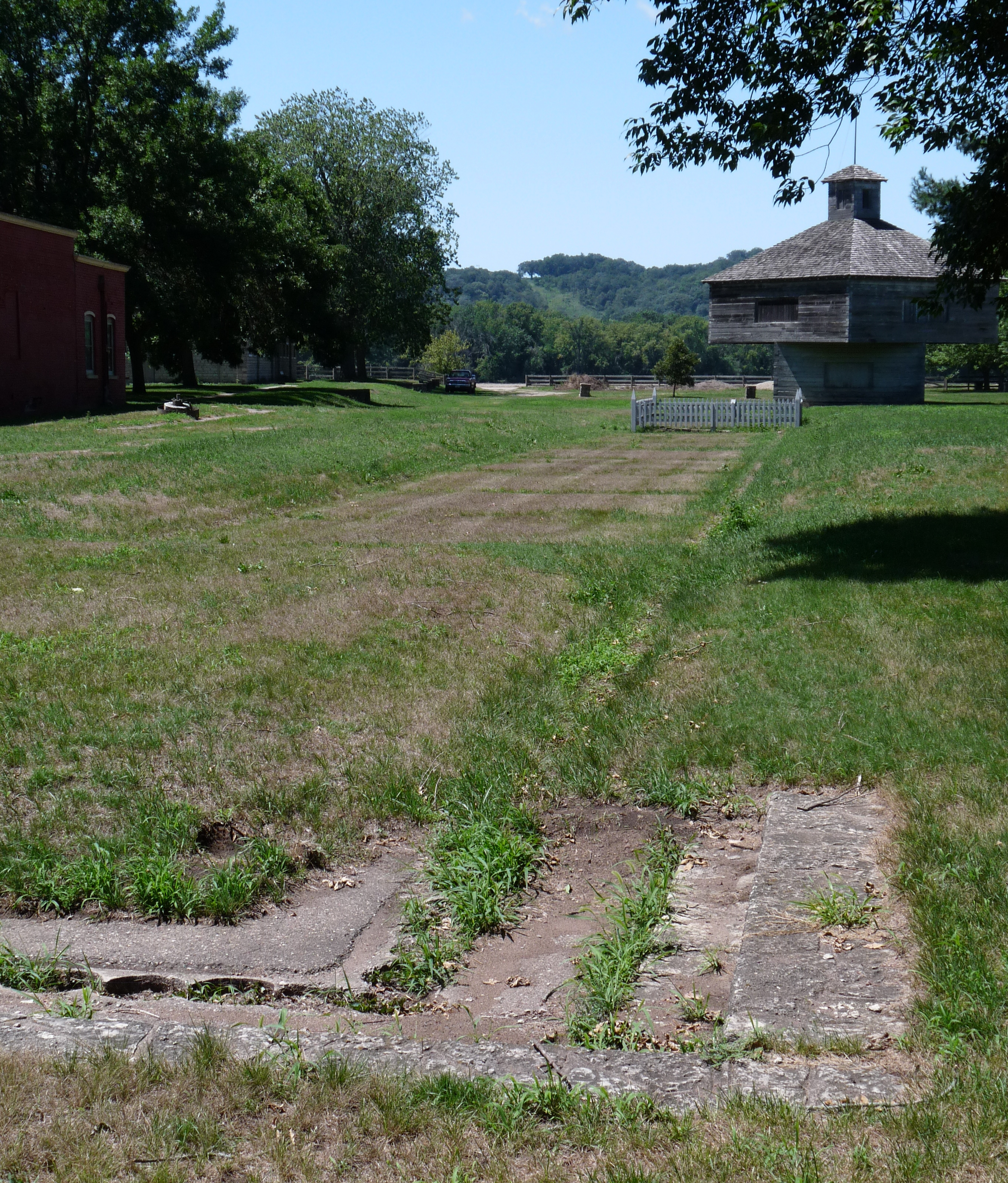 The first Fort Crawford was built by the U.S. Army at Prairie du Chien, Wisconsin in 1816. Its vestiges lie just north of the Villa Louis. The brown rectangles in mid-photo are the footings of the north wall. The blockhouse at upper right is a reconstruction.